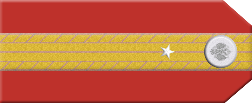 Russian Empire; Imperial Russian Army; branch/service — army, infantry: Rank insignia: shoulder board as to the design 1909 Rank: Zauryad-praporshchik (en: Praporshchik deputy/ equivalent: Master sergeant OR8 – NATO) Particularity: assigned to serve on officer´s position, e.g. OF1.